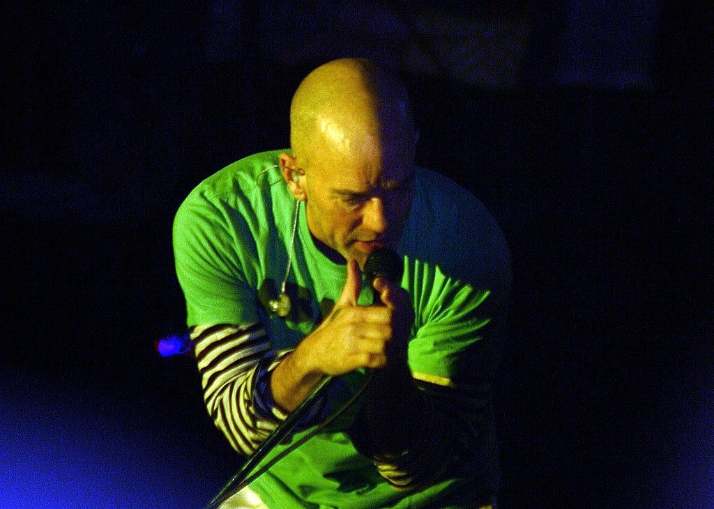 Michael Stipes of REM performing at Langerado 2008